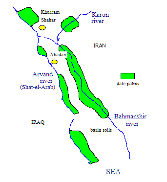 Sketch of Abadan Island, Iran, with tidal irrigation of date plams